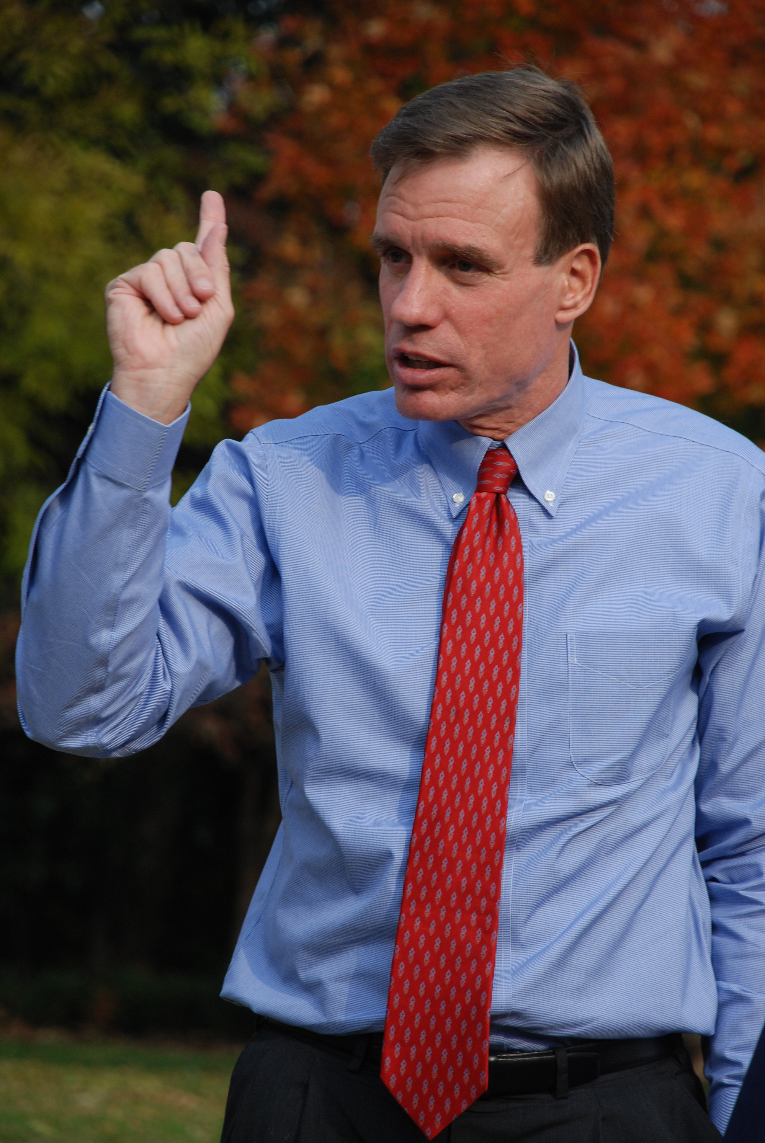 Charlottesville-Richmond 091